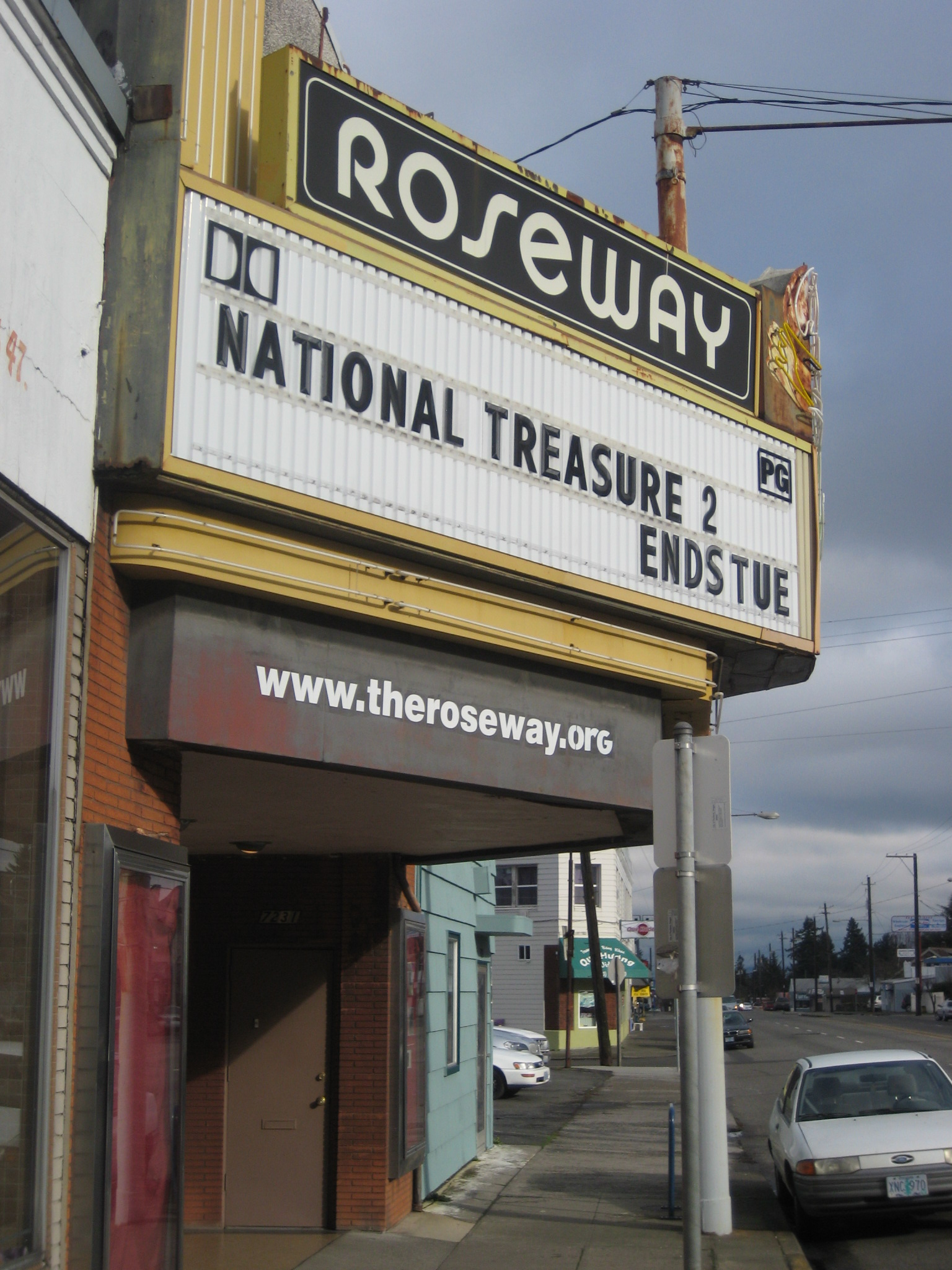 Historic Roseway Theater, NE Sandy Blvd, Portland, Oregon